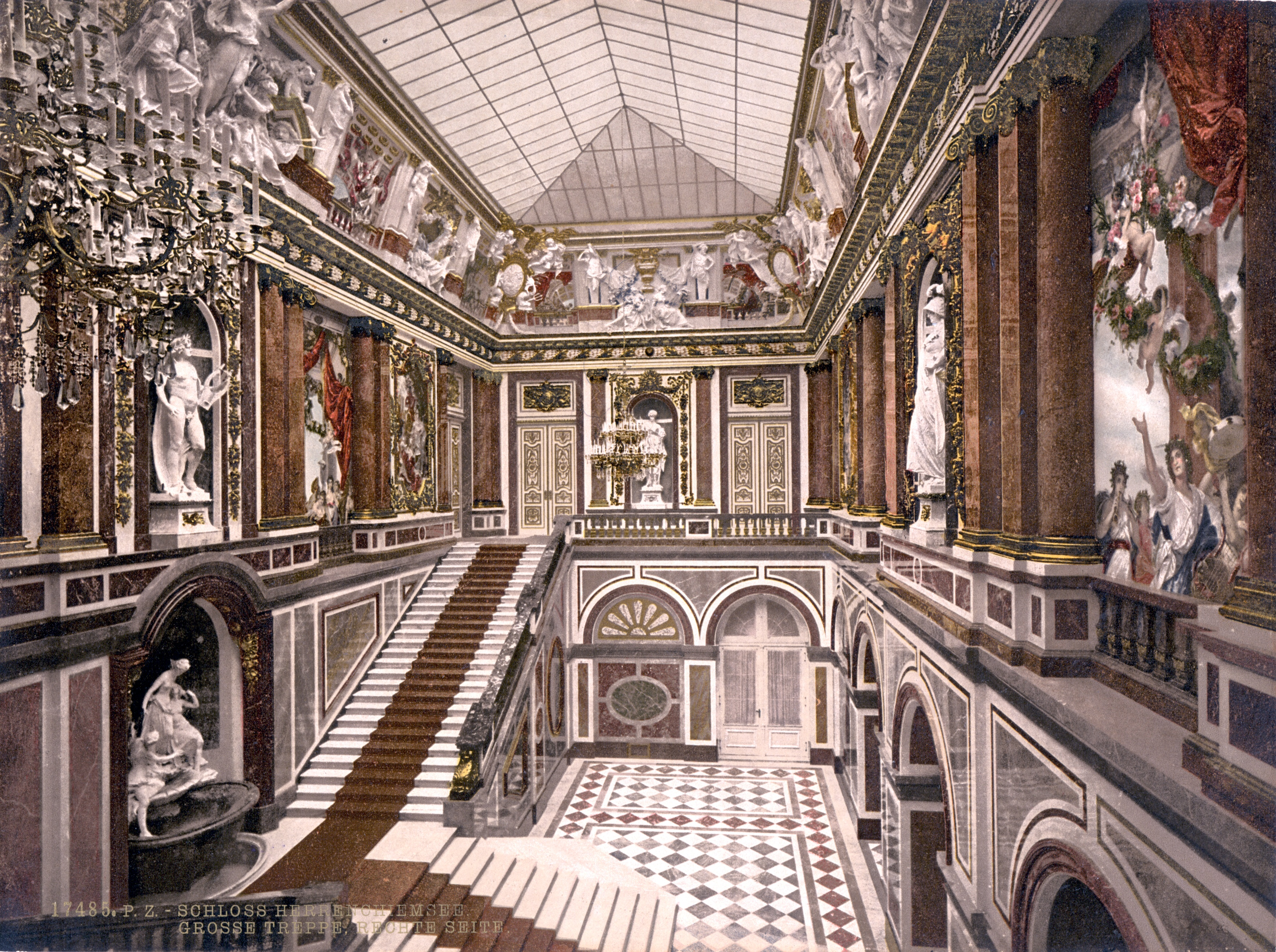 Herrenchiemsee Castle - main stairway